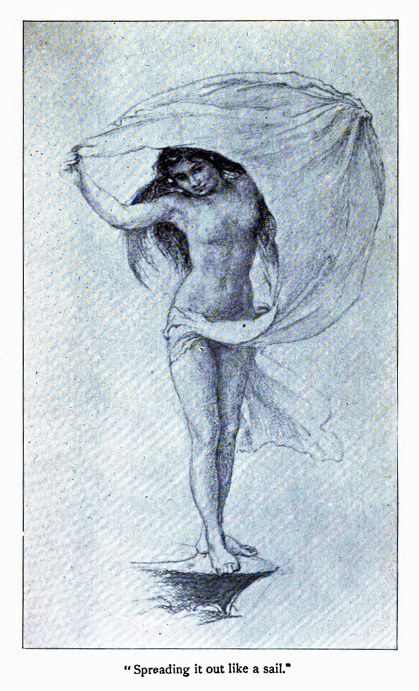 Fayaway, the heroine of the novel Typee by Herman Melville